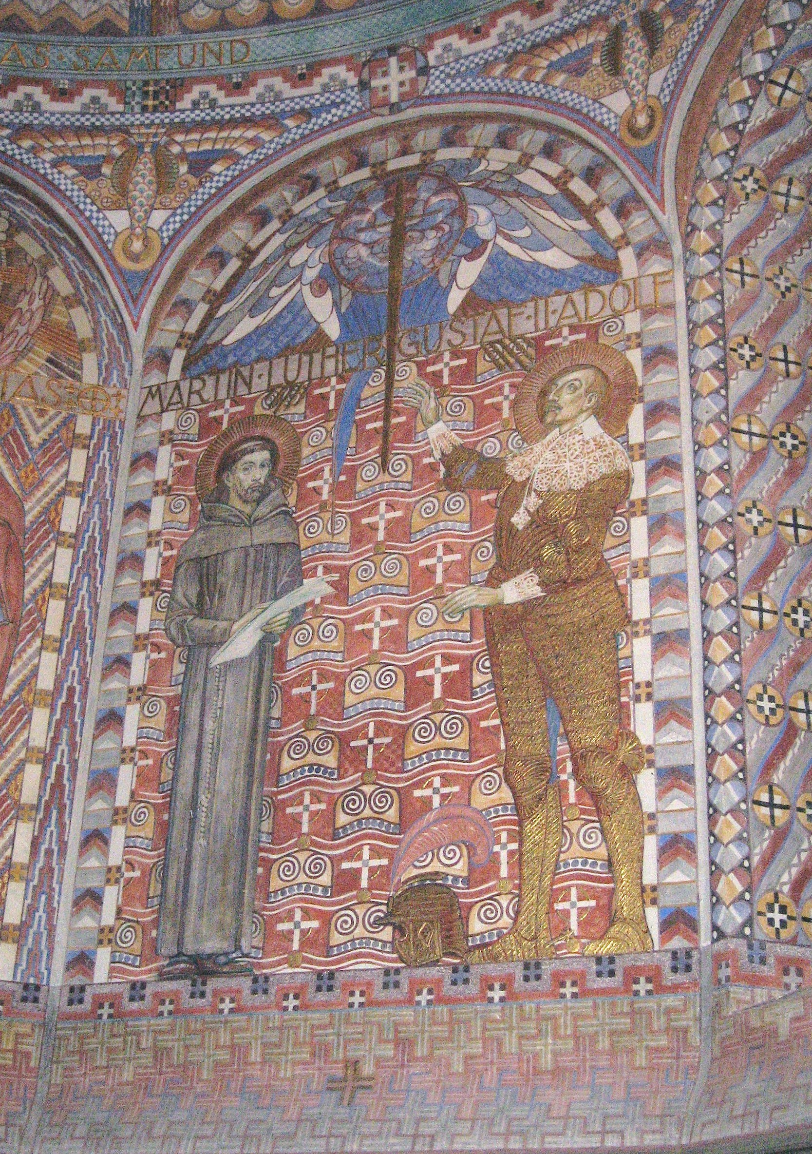 Uppenbarelsekyrkan, Saltsjöbaden, Stockholm County, Sweden. Sanctuary. Painting of Martin Luther and Gustav II Adolf by Olle Hjortzberg.